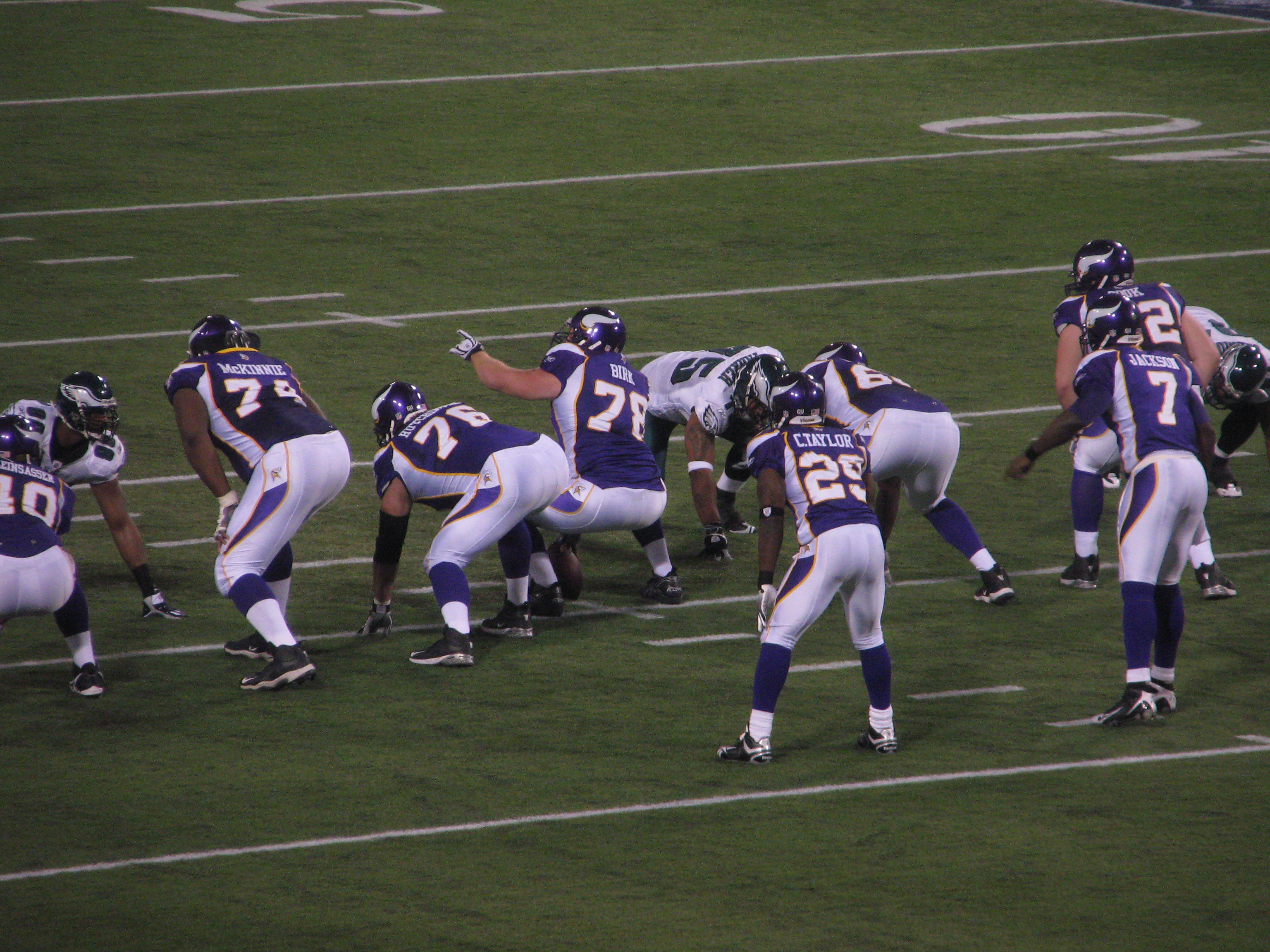 Chester Taylor in 2009 NFC Wild Card Game